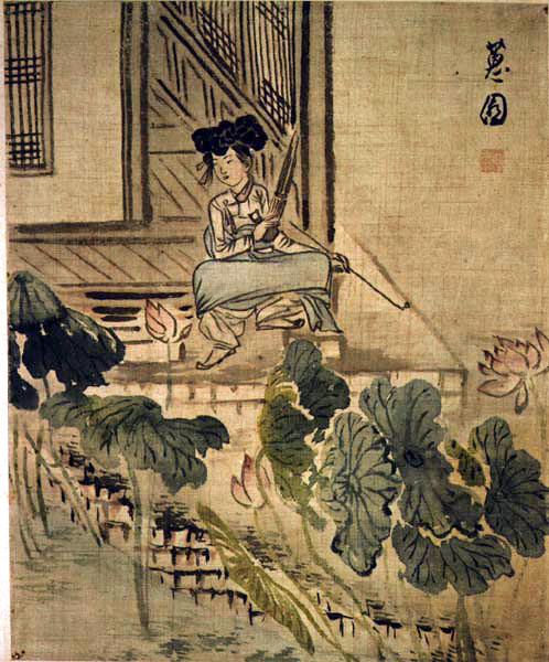 Woman by a lotus pond. Ink and light color on silk, 29.6 x 24.8 cm. Sin Yun-bok (ca. 1758 - after 1813). Genre painting of women. Three leaves of an album of 7 leaves. National Museum of Korea.